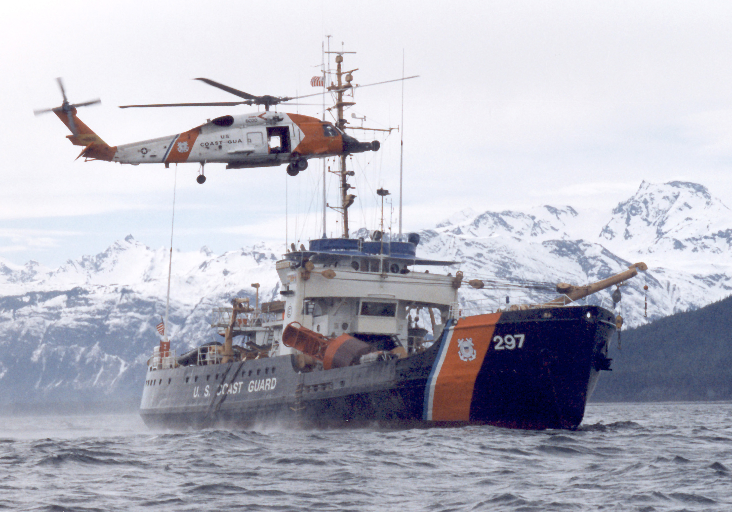 USCGC Ironwood in Lynn Canal transferring supplies to a helicopter for the Eldred Rock lighthouse.